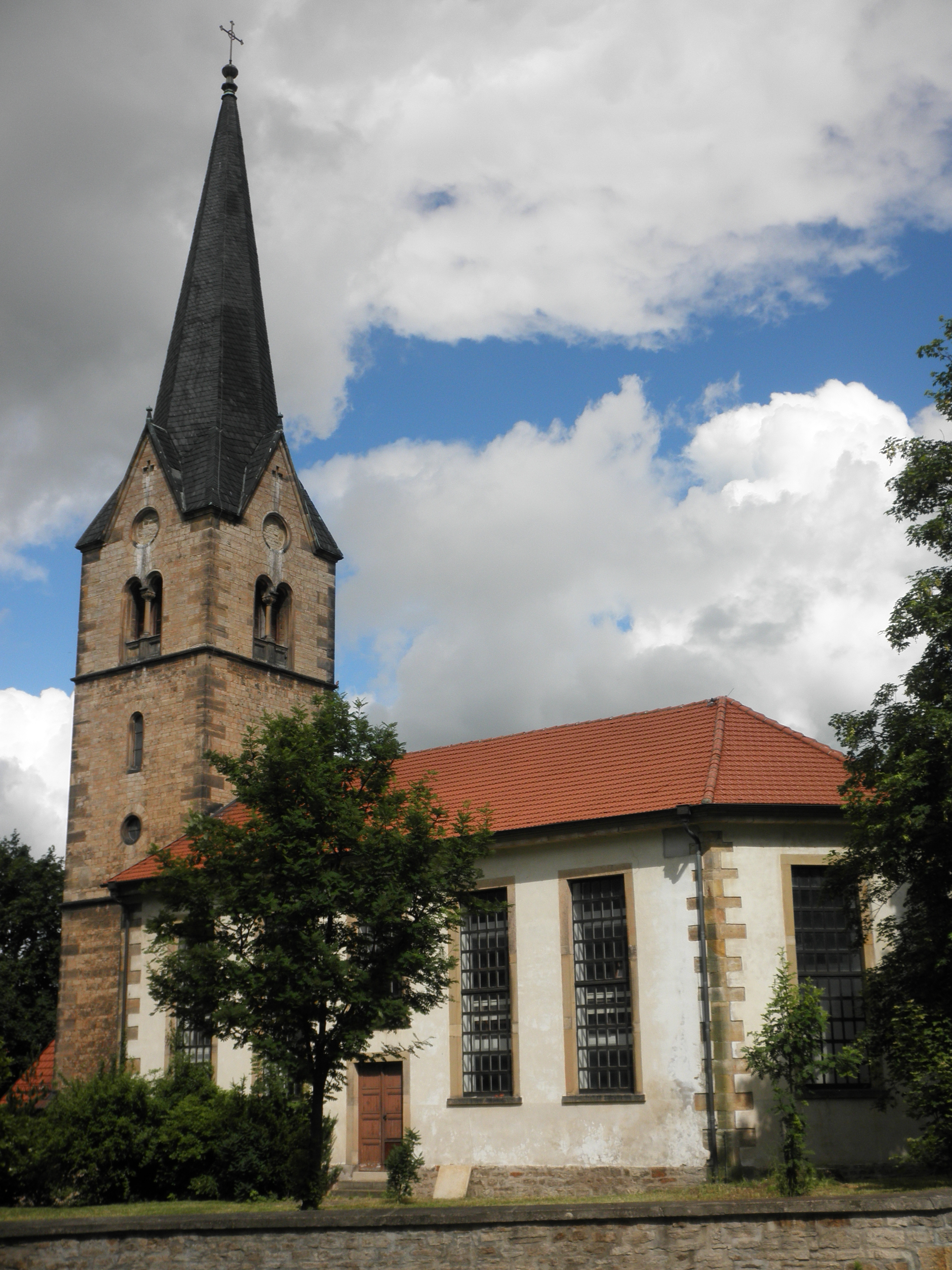 Church in Schmira (Erfurt)